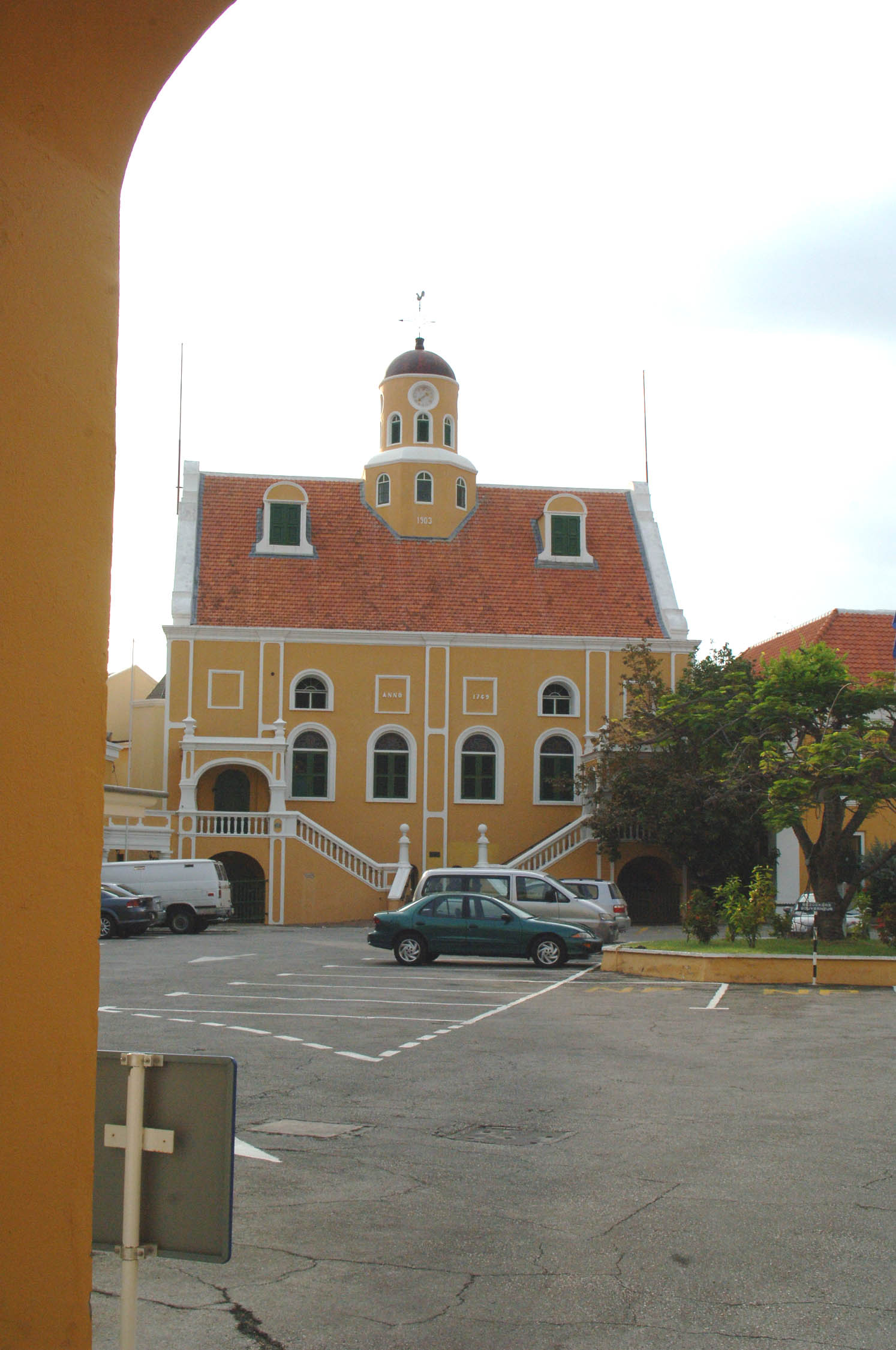 FORT CHURCH - 1763-1771